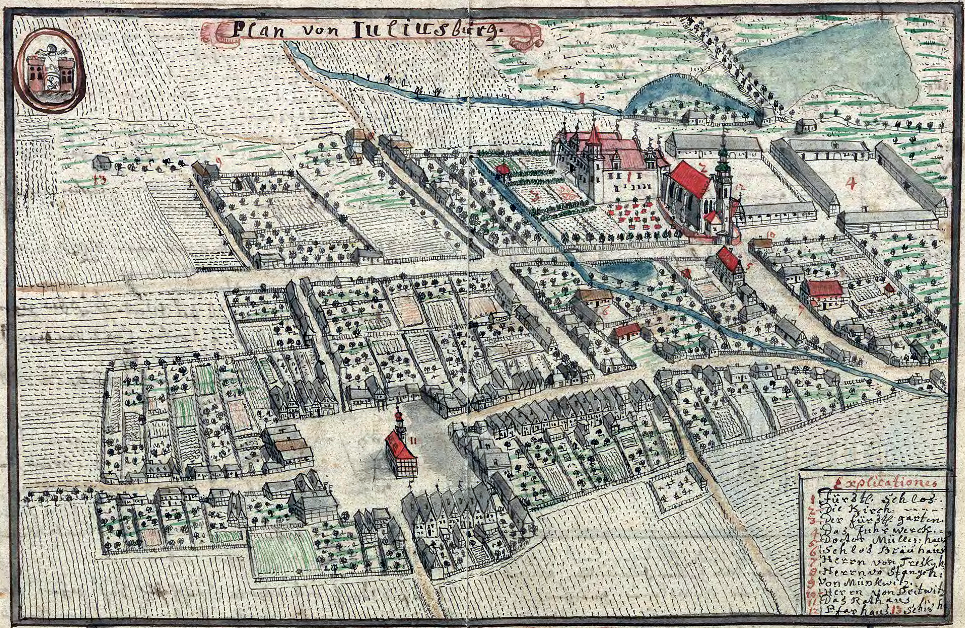 Juliusburg, today Dobroszyce in Poland.